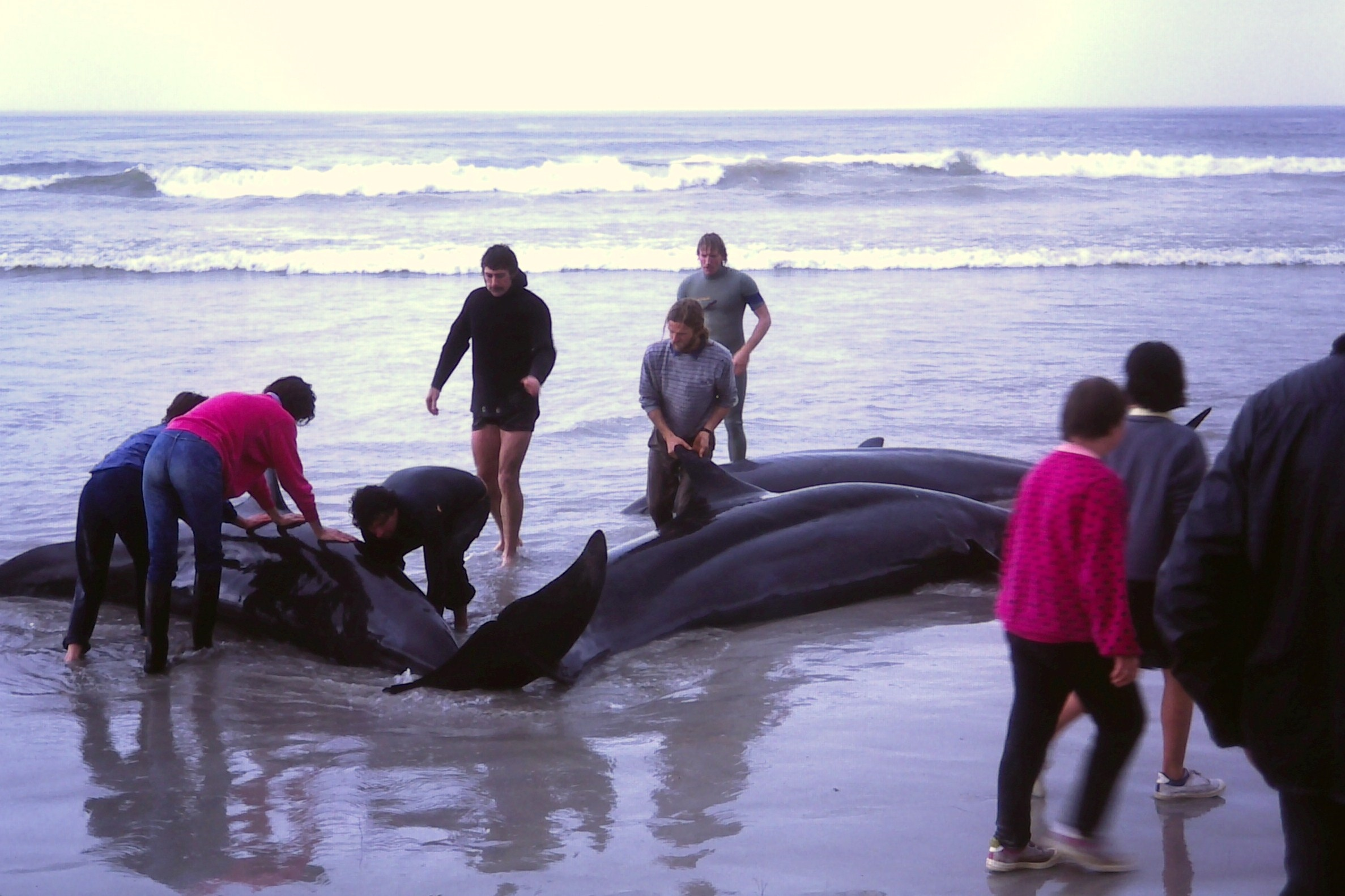 Part of a pod of false killer whales AKA brown killer whales that became stranded at Town Beach, Augusta, in Flinders Bay, Western Australia, at the end of July 1986. Photo taken on the first morning of the stranding. Kodachrome slide converted by Kaiser Baas Photo Maker Pro into a digital image.